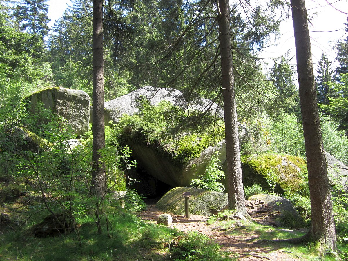 Girgelhöhle